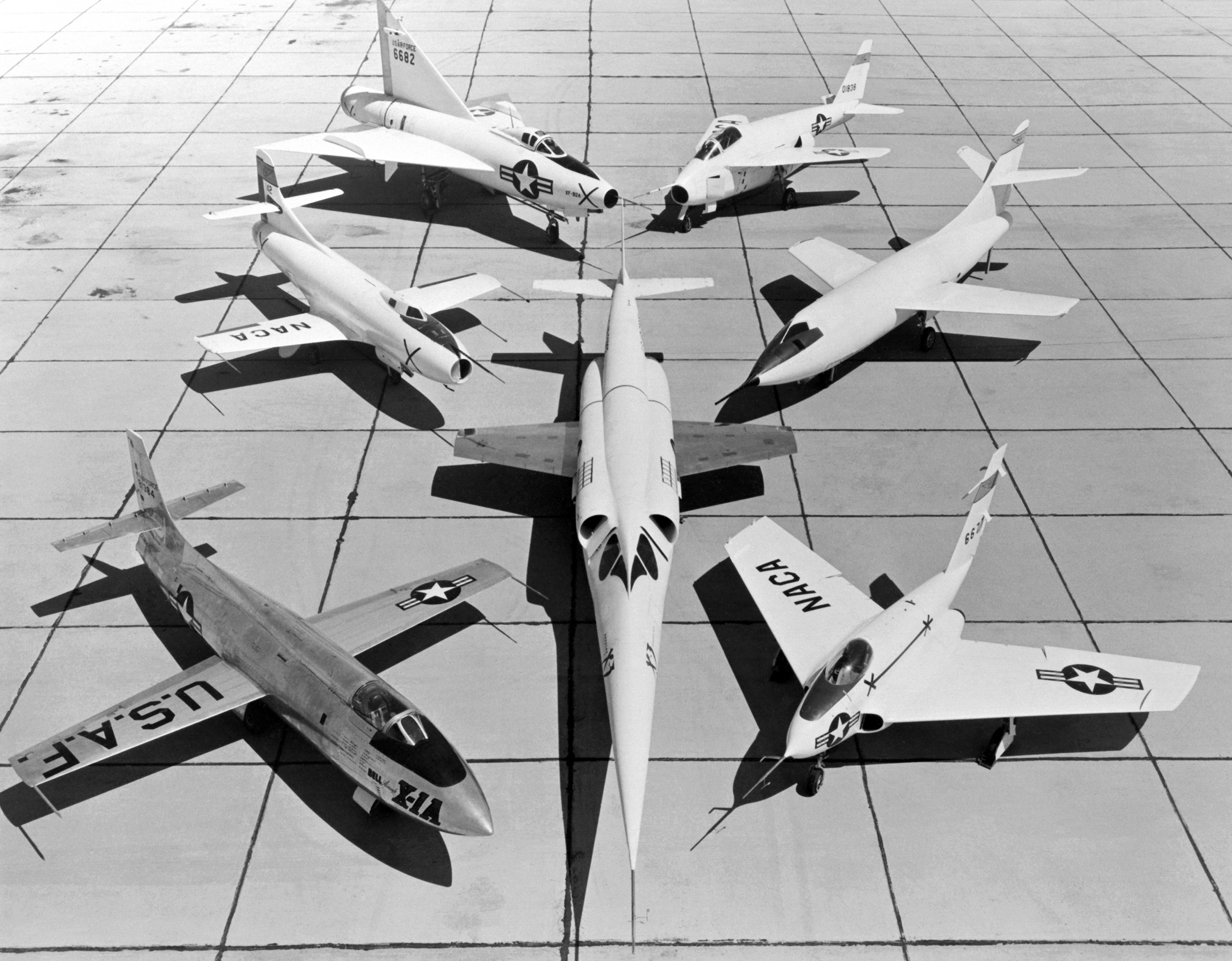 A "group photo" of first generation U.S. experimental aircraft. In the center, the Douglas X-3 Stiletto; around it, clockwise from bottom left: Bell X-1A, Douglas D-558-1 Skystreak, Convair XF-92A, Bell X-5, Douglas D-558-2 Skyrocket, Northrop X-4 Bantam.